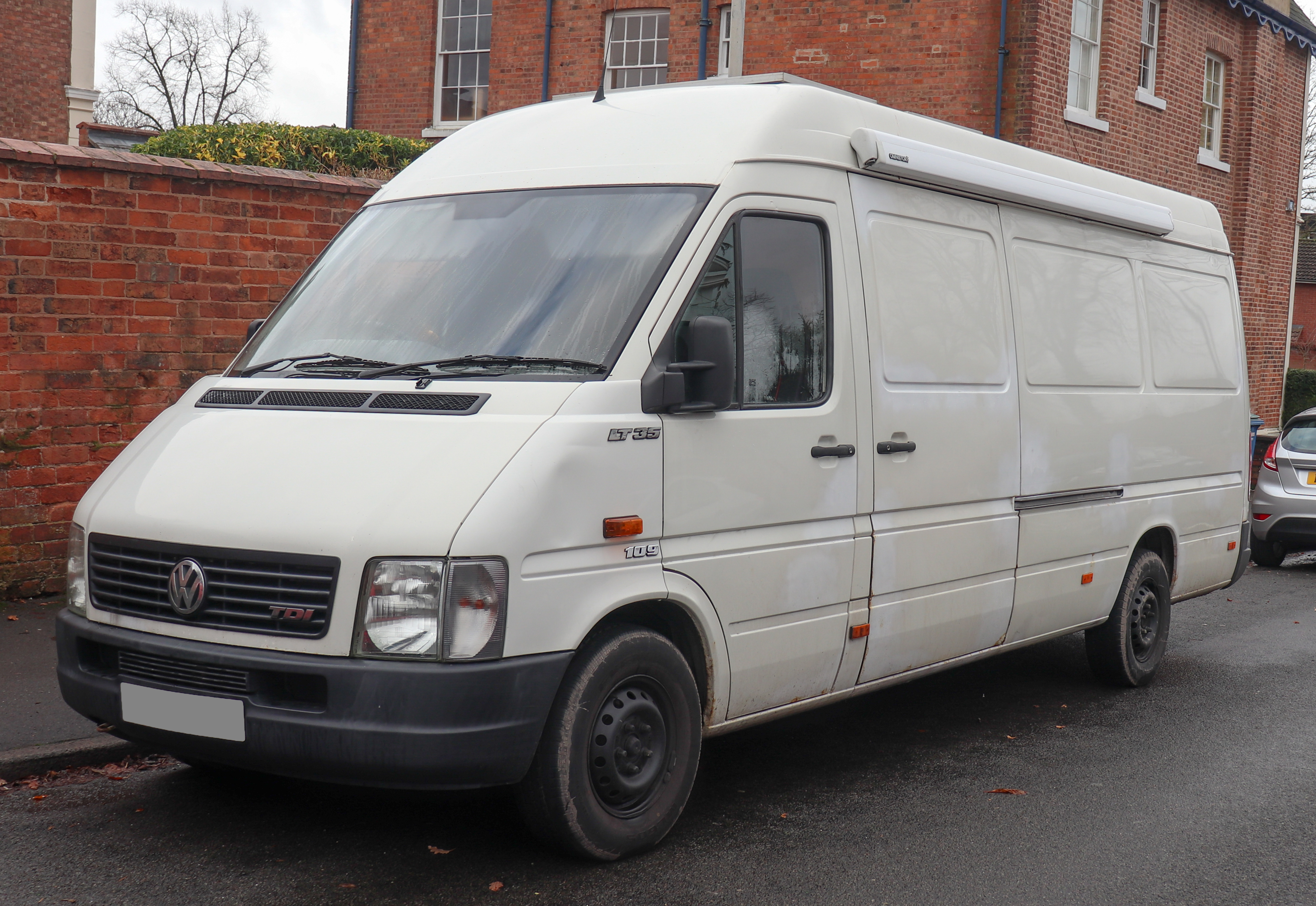 2004 Volkswagen LT35 TDi LWB 2.5 Front Taken in Leamington Spa